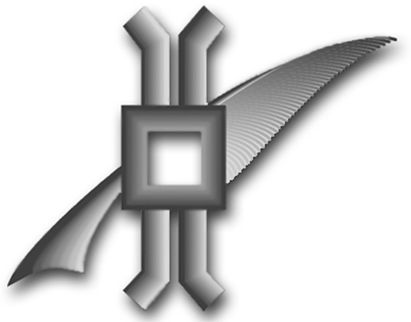 US Navy Legalman (LN). A vertical mill rinde over a quill; nib of pen down and to the left.